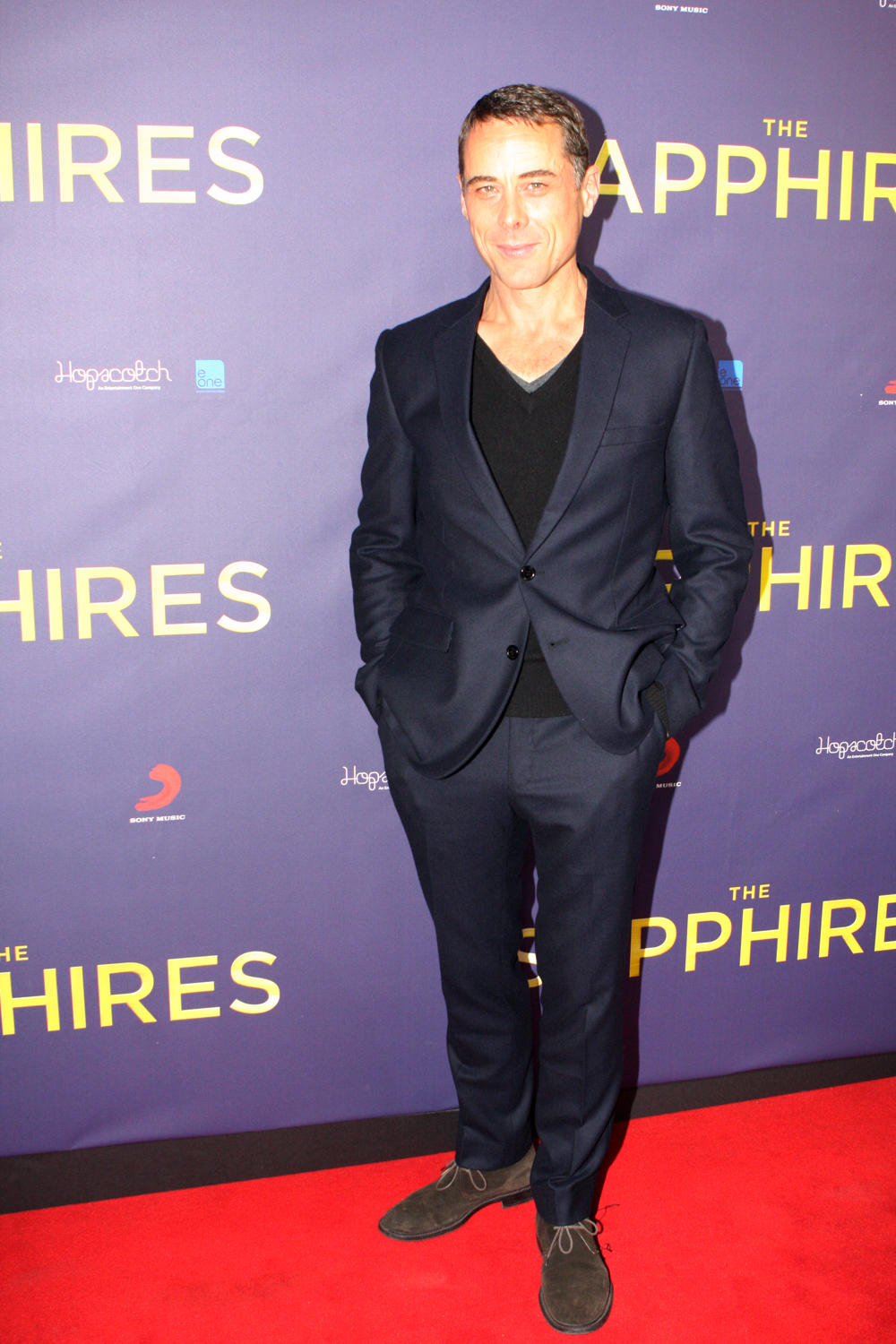 Actor Marcus Graham at The Sapphires movie premiere at State Theatre, Sydney, Australia